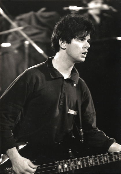 Jean-Jacques Burnel during the recording of French TV show "l'Echo des bananes" in september 1983